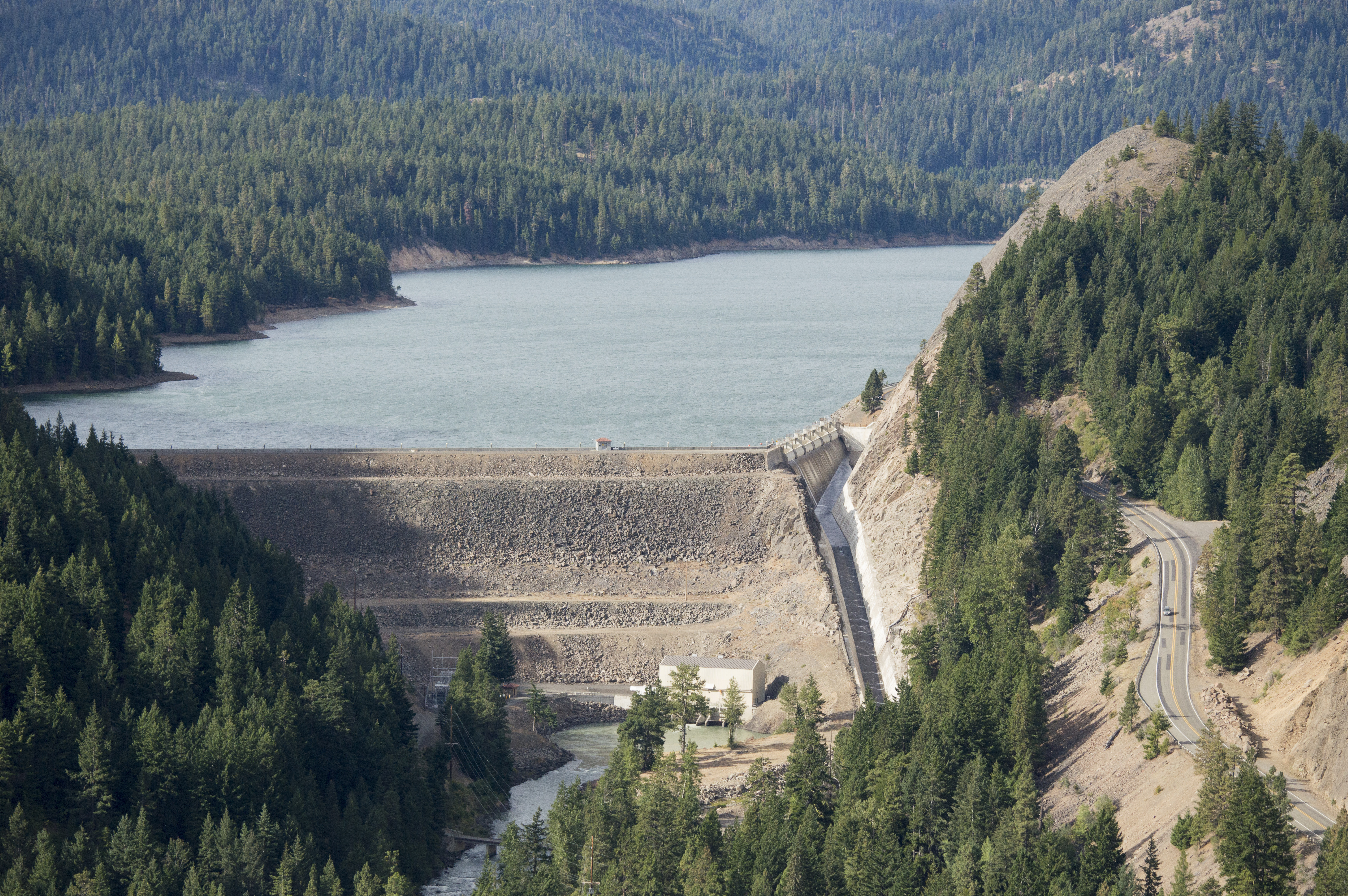 Photo of the Tieton Dam taken from the North at Lava Point, WA. At right is Washington Highway 12.